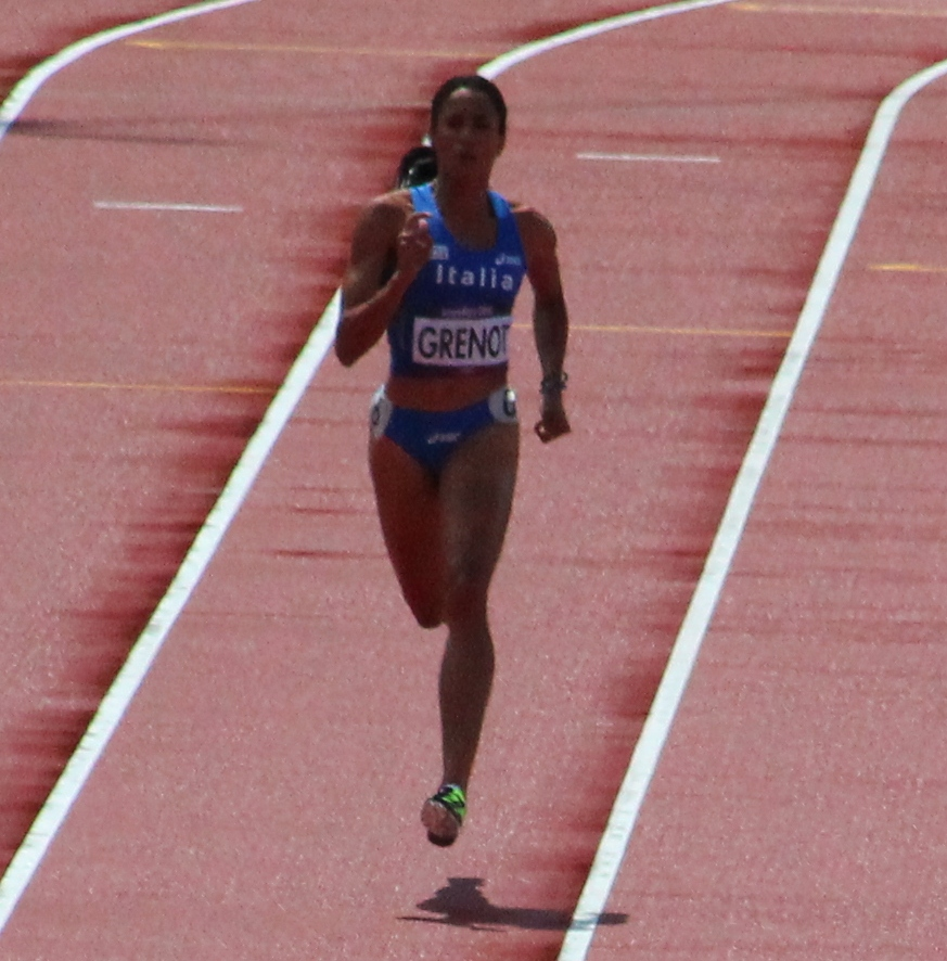 Italian sprinter Libania Grenot